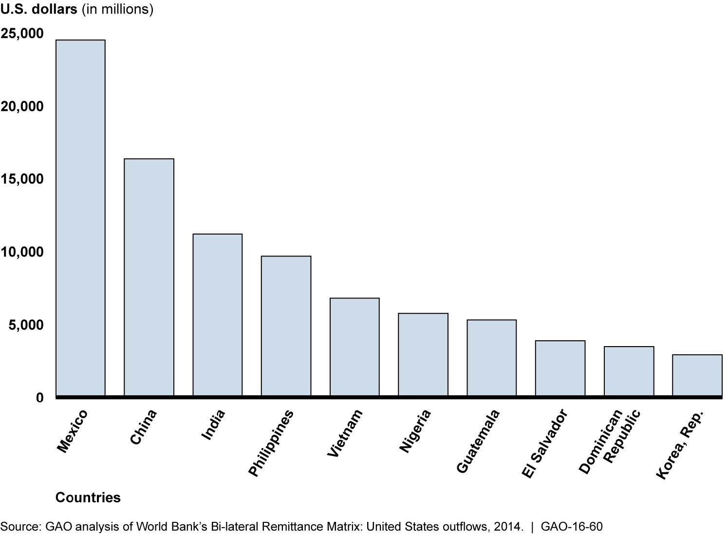 This image is excerpted from a U.S. GAO report: INTERNATIONAL REMITTANCES: Actions Needed to Address Unreliable Official U.S. Estimate Note: According to the World Bank, the remittance amounts in the bilateral remittance matrix are unofficial estimates designed to capture country-specific, disaggregated bilateral remittance estimates and have been published by the Migration and Remittances program office since 2010. In contrast to the World Bank's official remittance estimates, the World Bank's bilateral remittance estimates use a different methodology, and have higher remittance estimate totals per country. World Bank bilateral remittance data for 2014 are disaggregated using host country and origin country incomes and estimated migrant stocks from 2013.